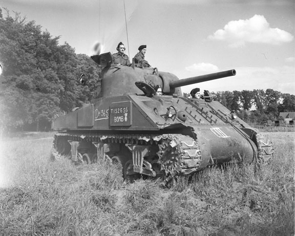 The tank named "Bomb" of the Sherbrooke Fusiliers regiment on June 8, 1945 in Zutphen, Netherlands. Markings on the side "D plus 365" note how it survived fighting from D-Day to the end of the war, the only Canadian tank to survive unscathed from D-Day to VE Day.